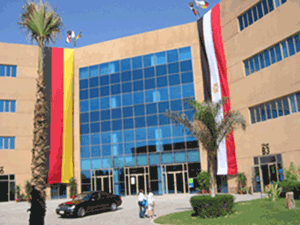 I took this photo myself from the GUC Campus